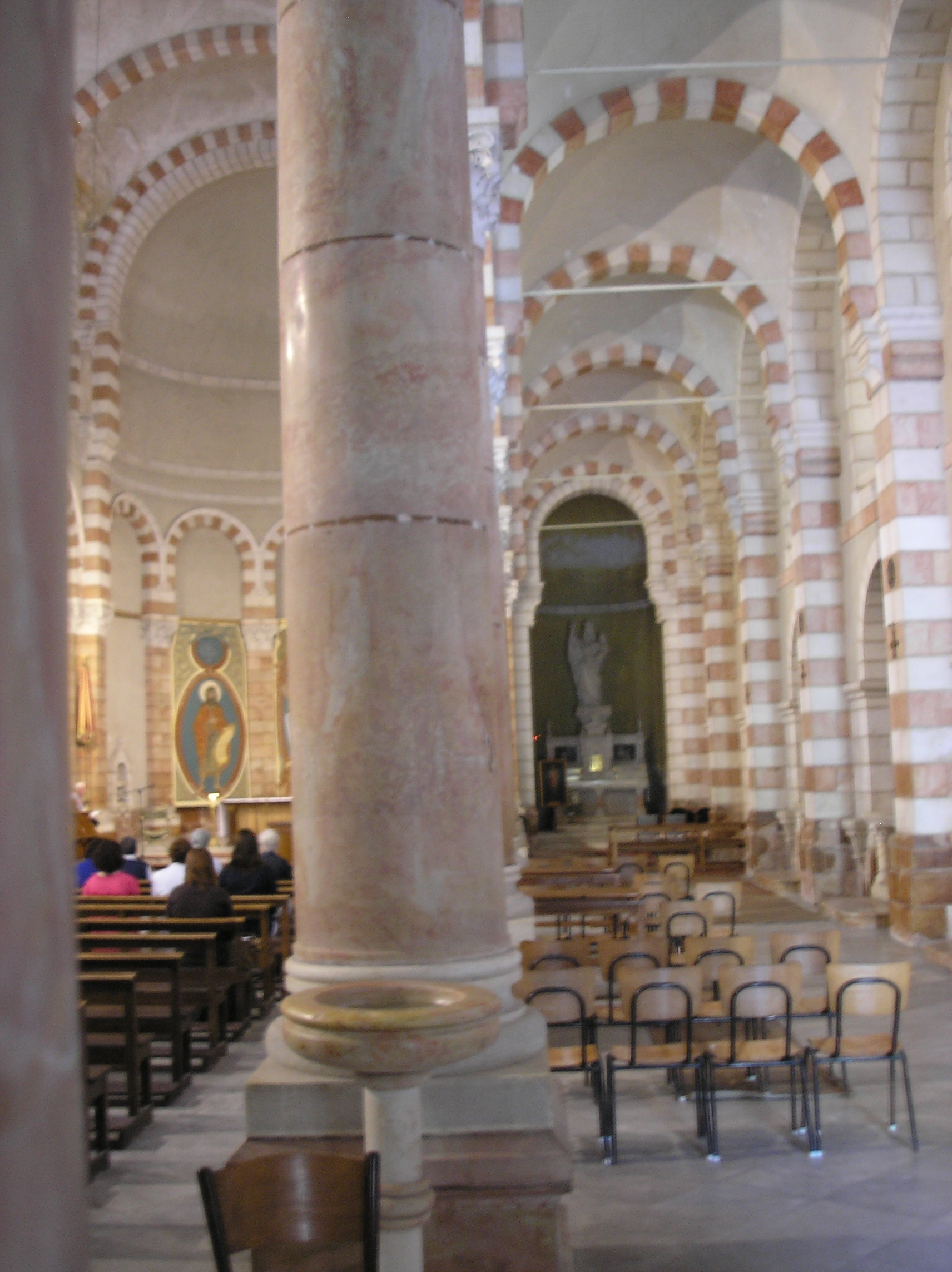 St. Etienne Monestary